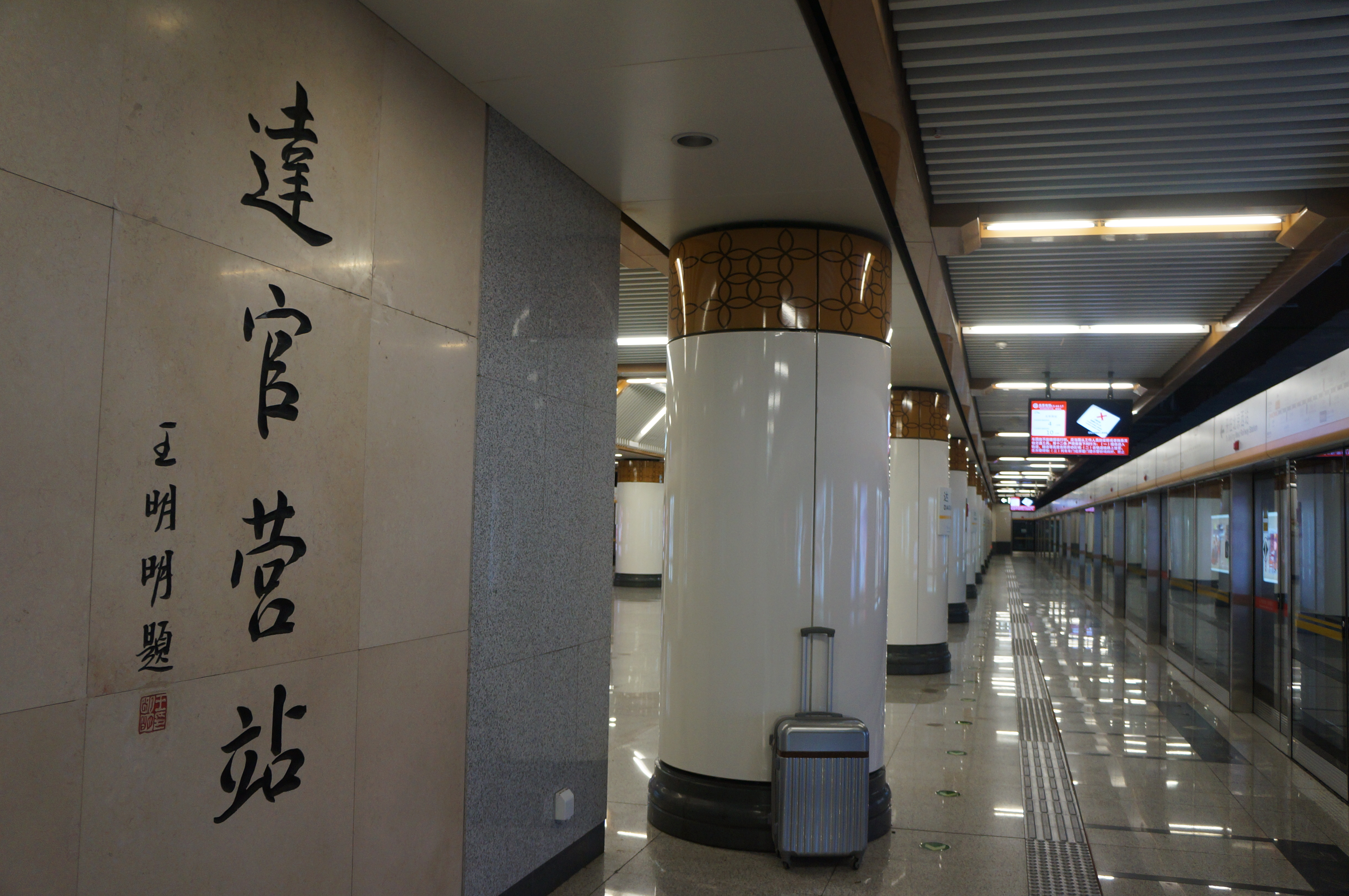 201606 Nameboard at Daguanying Station